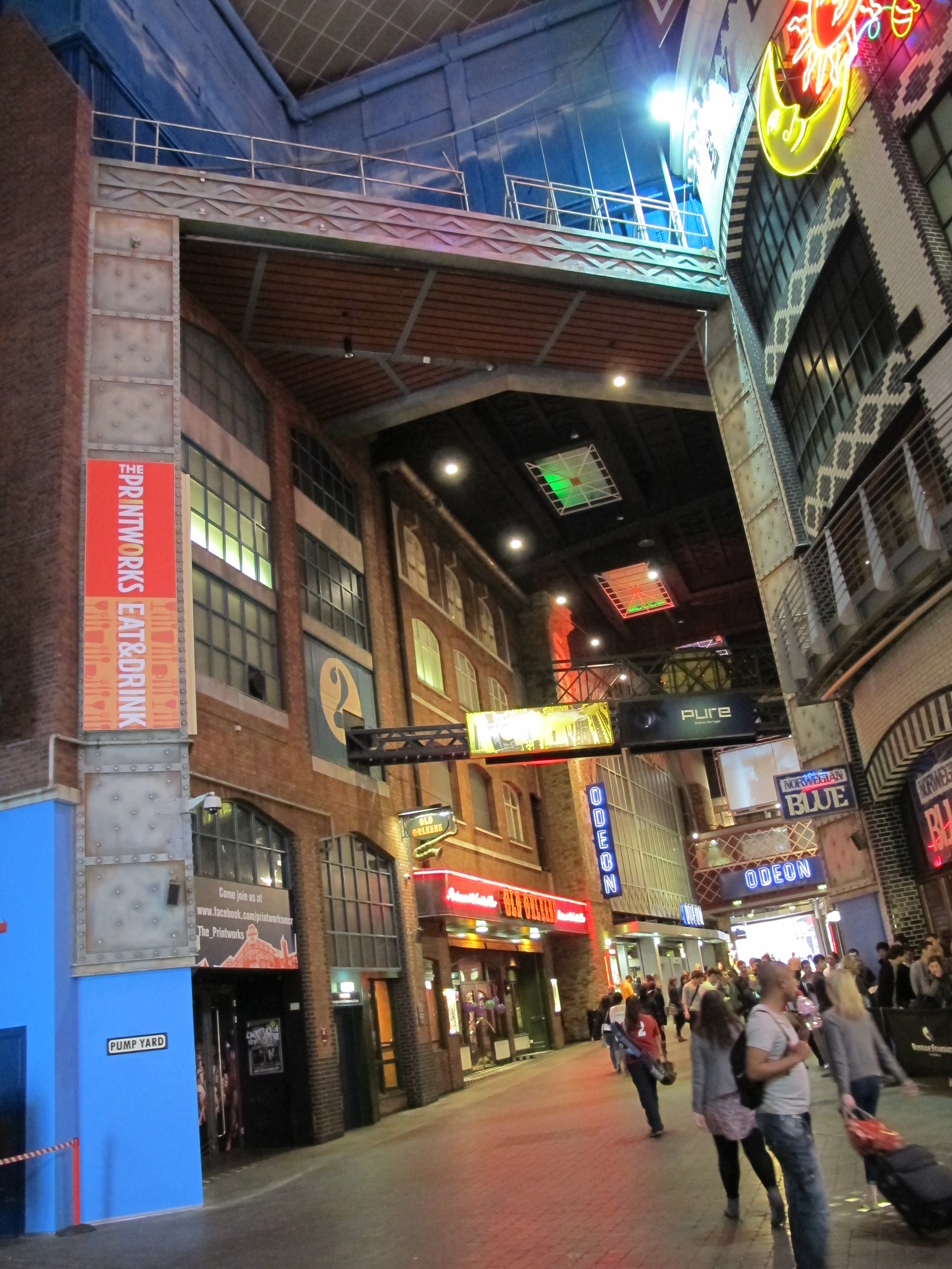 the printworks